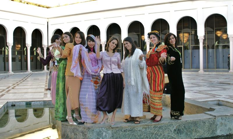 Algerians in traditional costumes